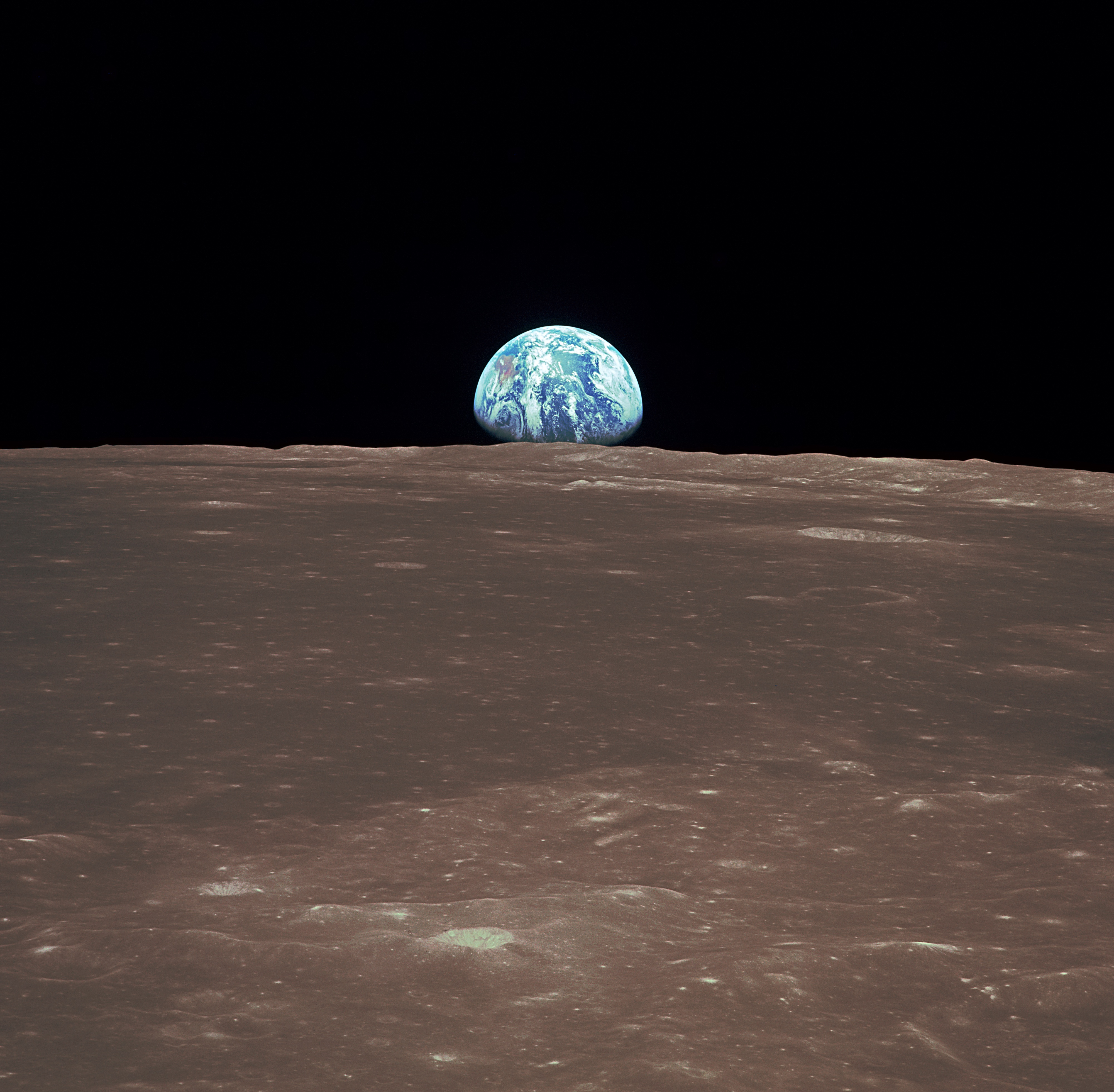 This view from the Apollo 11 spacecraft shows Earth rising above the moon's horizon. The lunar terrain pictured is in the area of Smyth's Sea on the nearside. Coordinates of the center of the terrain are 86 degrees east longitude and 3 degrees north latitude.